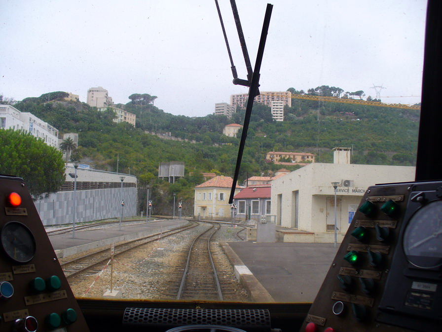 Bastia - SNCF Corse Train Station - the tunnel